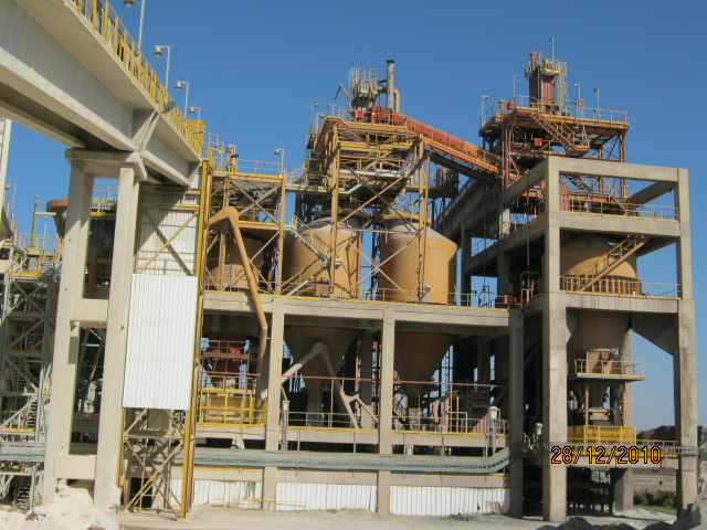 raw feed tower - Nesher cement, Ramla, Israel